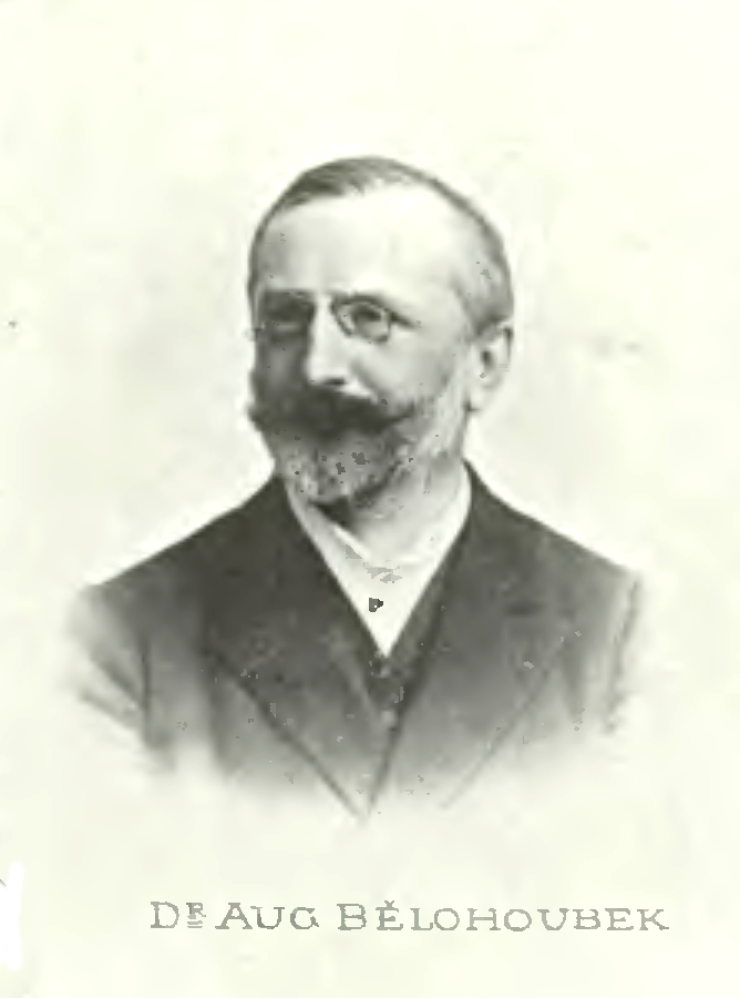 Portrait of August Bělohoubek (1847-1908), Czech pharmacist and chemist.